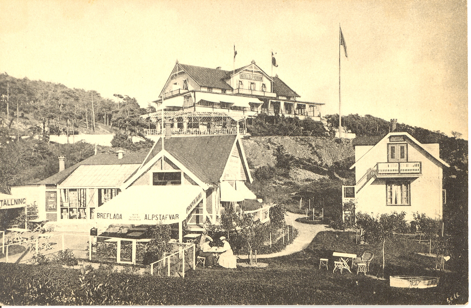 Hotel Elfverson and Lundh's shop at Mölle, Sweden